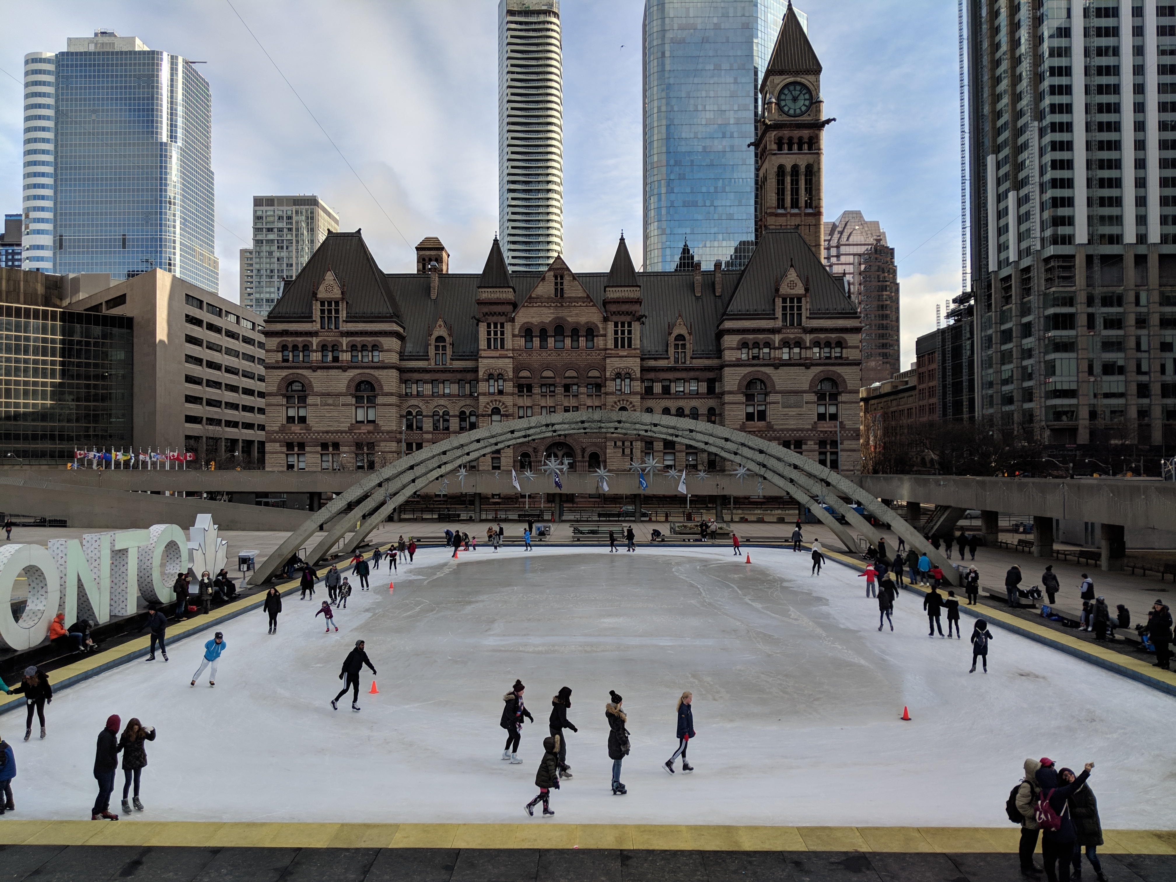 Toronto Old City Hall